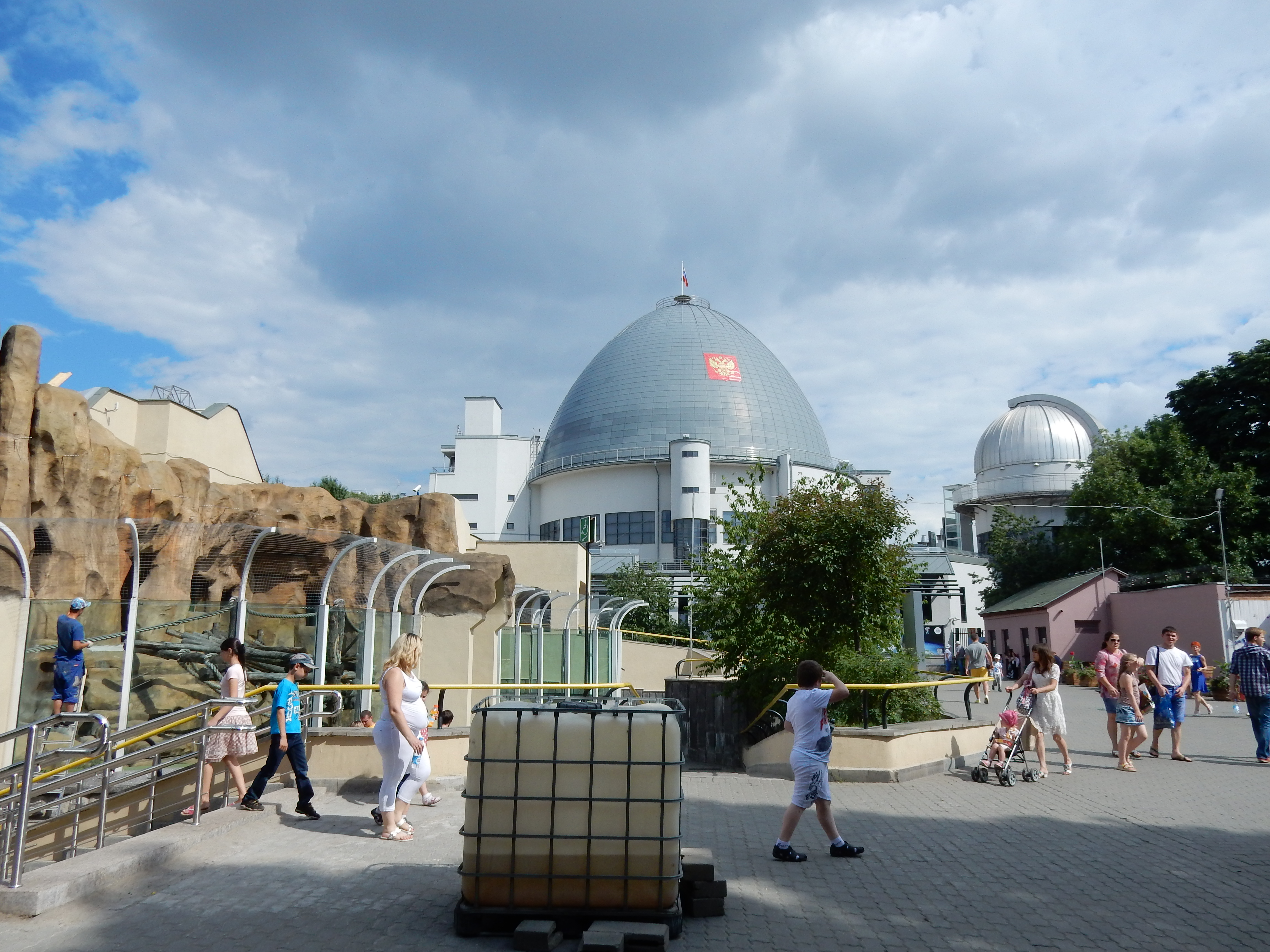 Moscow Zoo, 'New Territory' near Primate House. Moscow Planetarium is visible on background. July 2014.